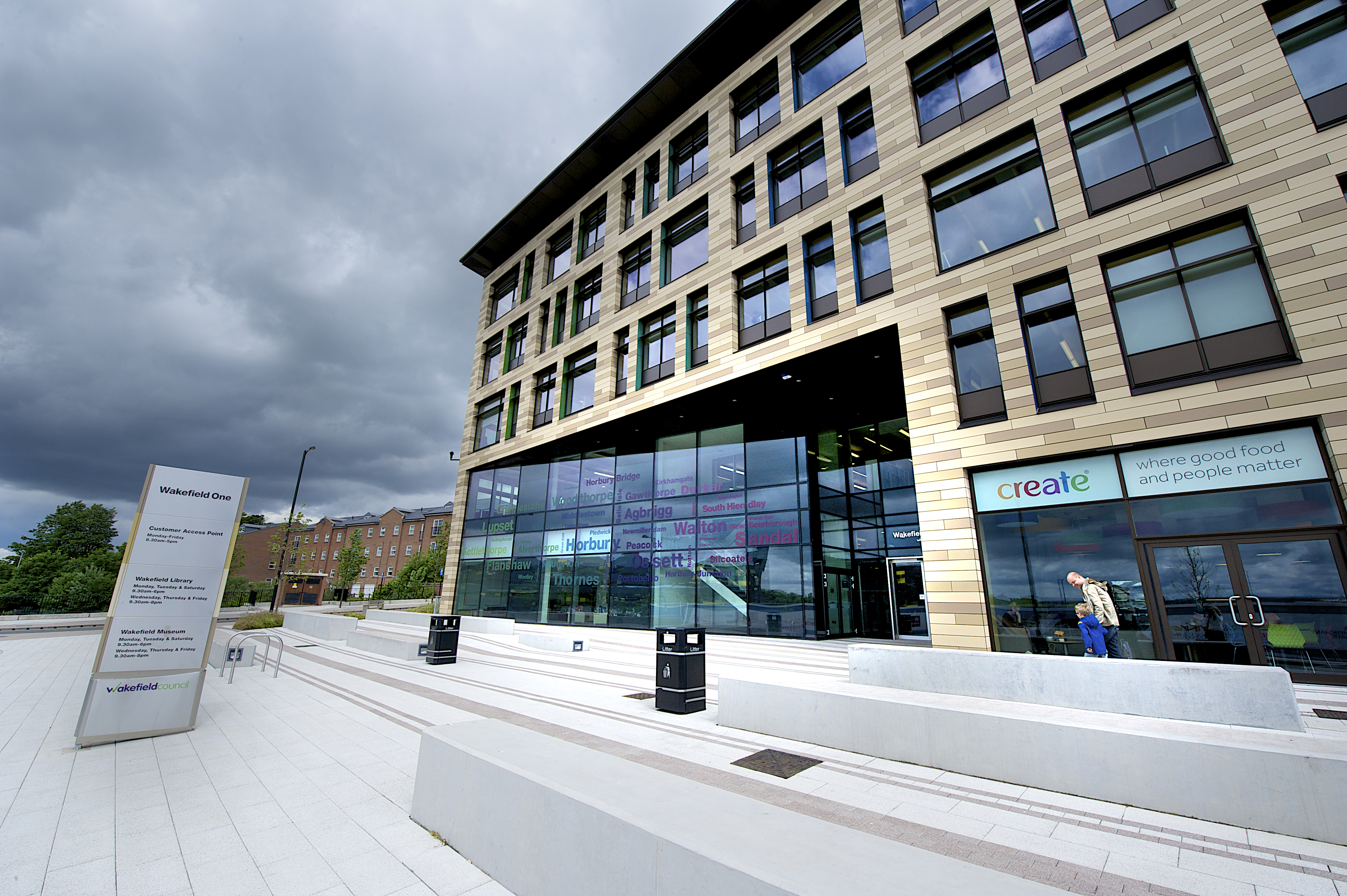 Photo of the Wakefield Museum, taken in mid 2015